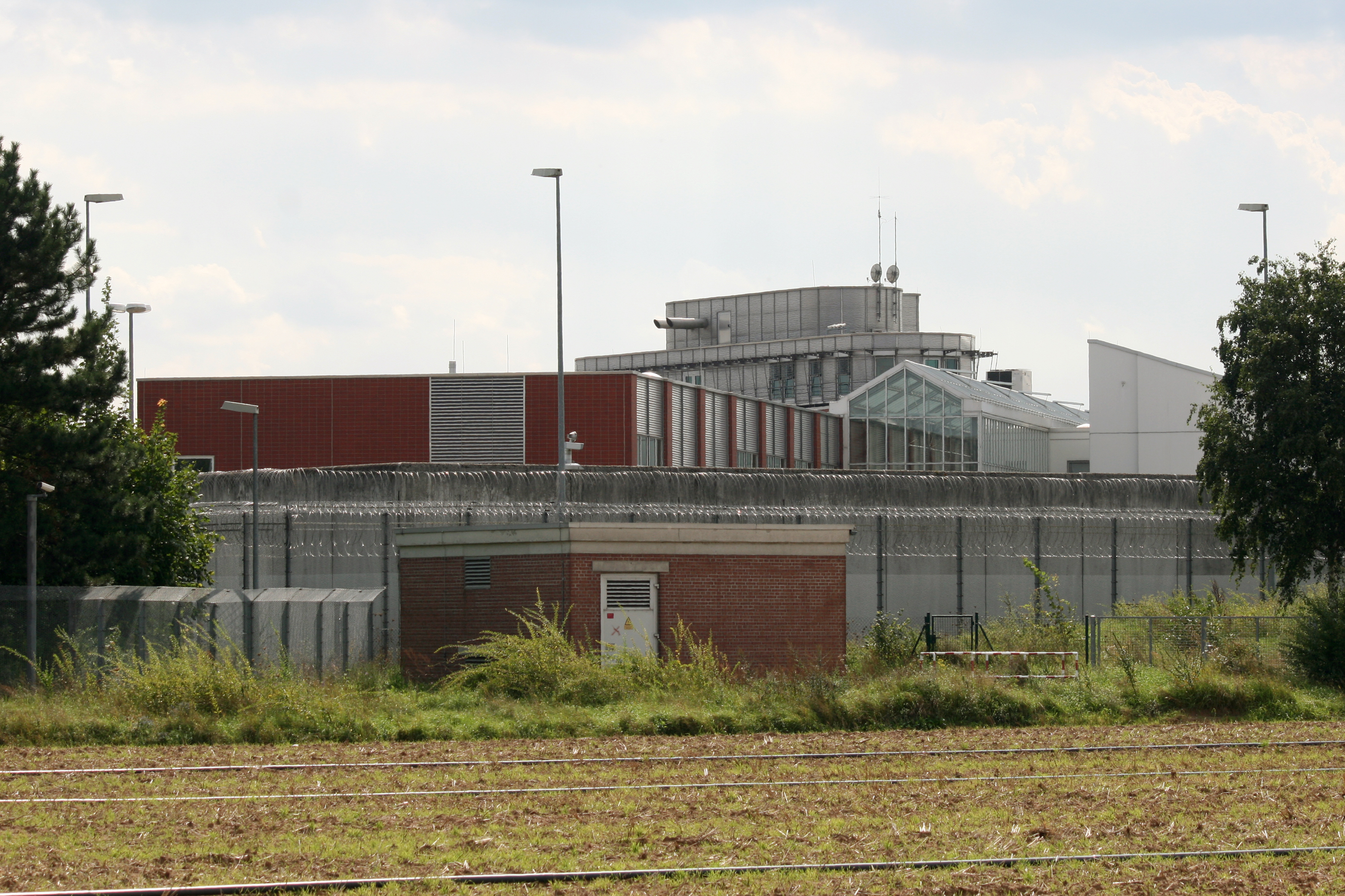 Prison in Weiterstadt, Hesse, Germany